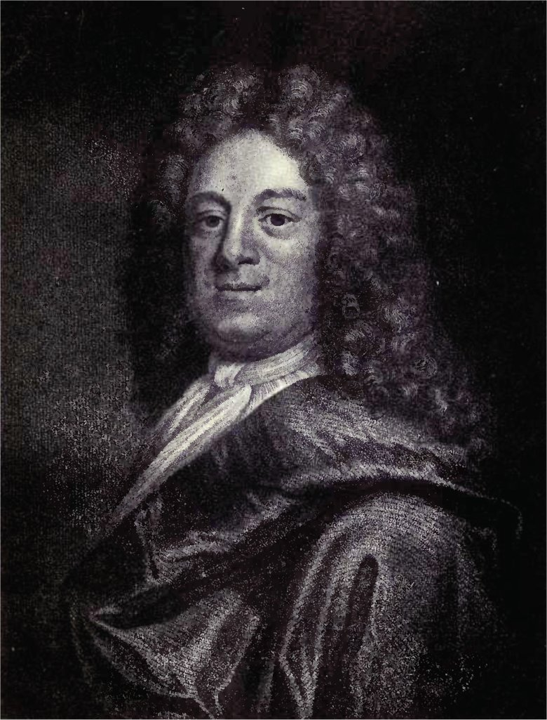 Ralph Thoresby, (16 August 1658 – 16 October 1724), antiquarian of Leeds, England.